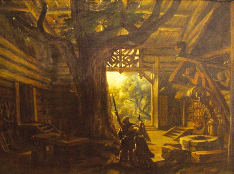 Hoffman's oil sketch of the final part of act 1 of Die Walküre: Siegmund embraces Sieglinde in Hunding's hall under a large tree.